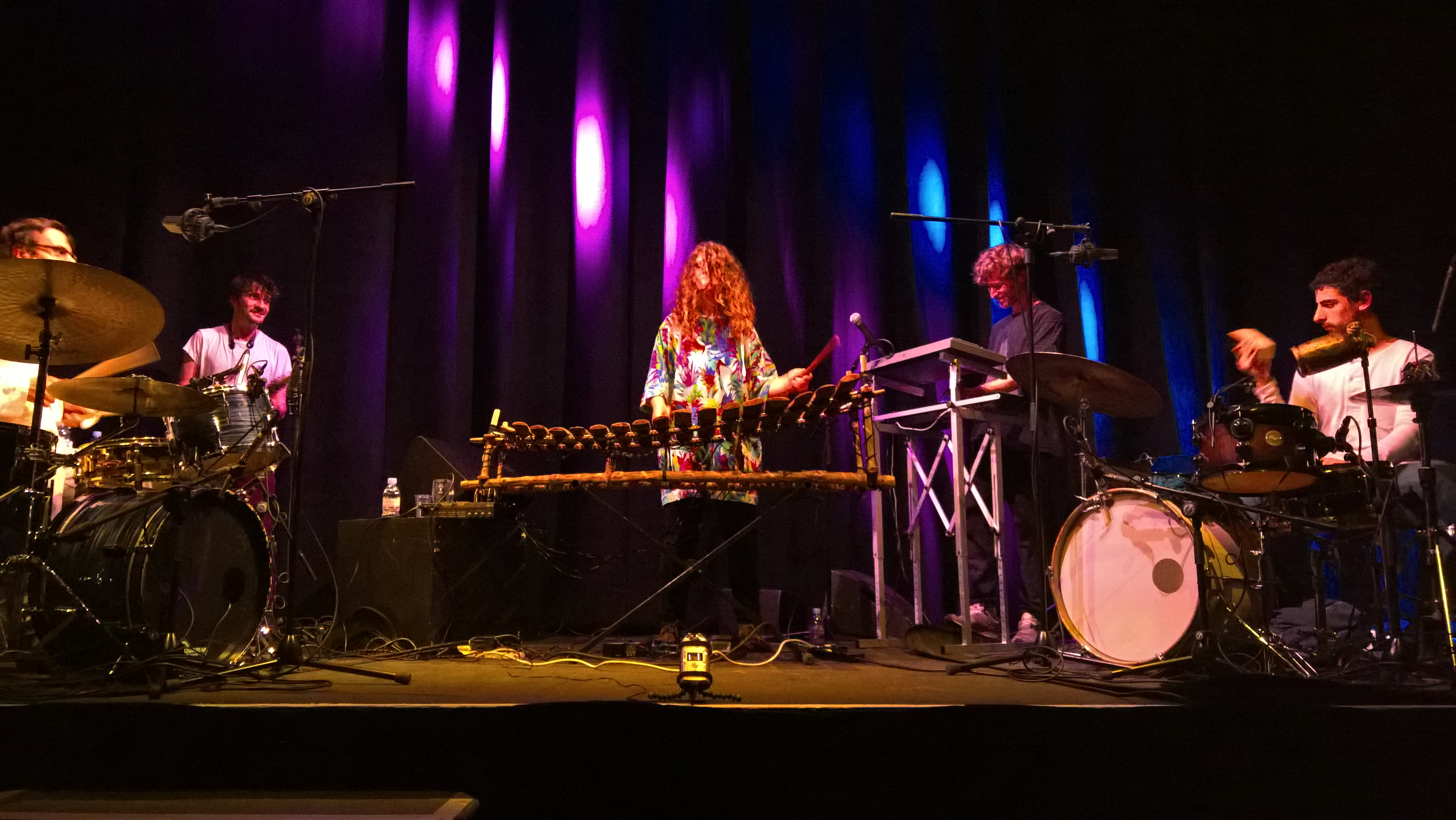 Vula Viel performing at the 2016 Songlines Festival, at Kings Place in London.